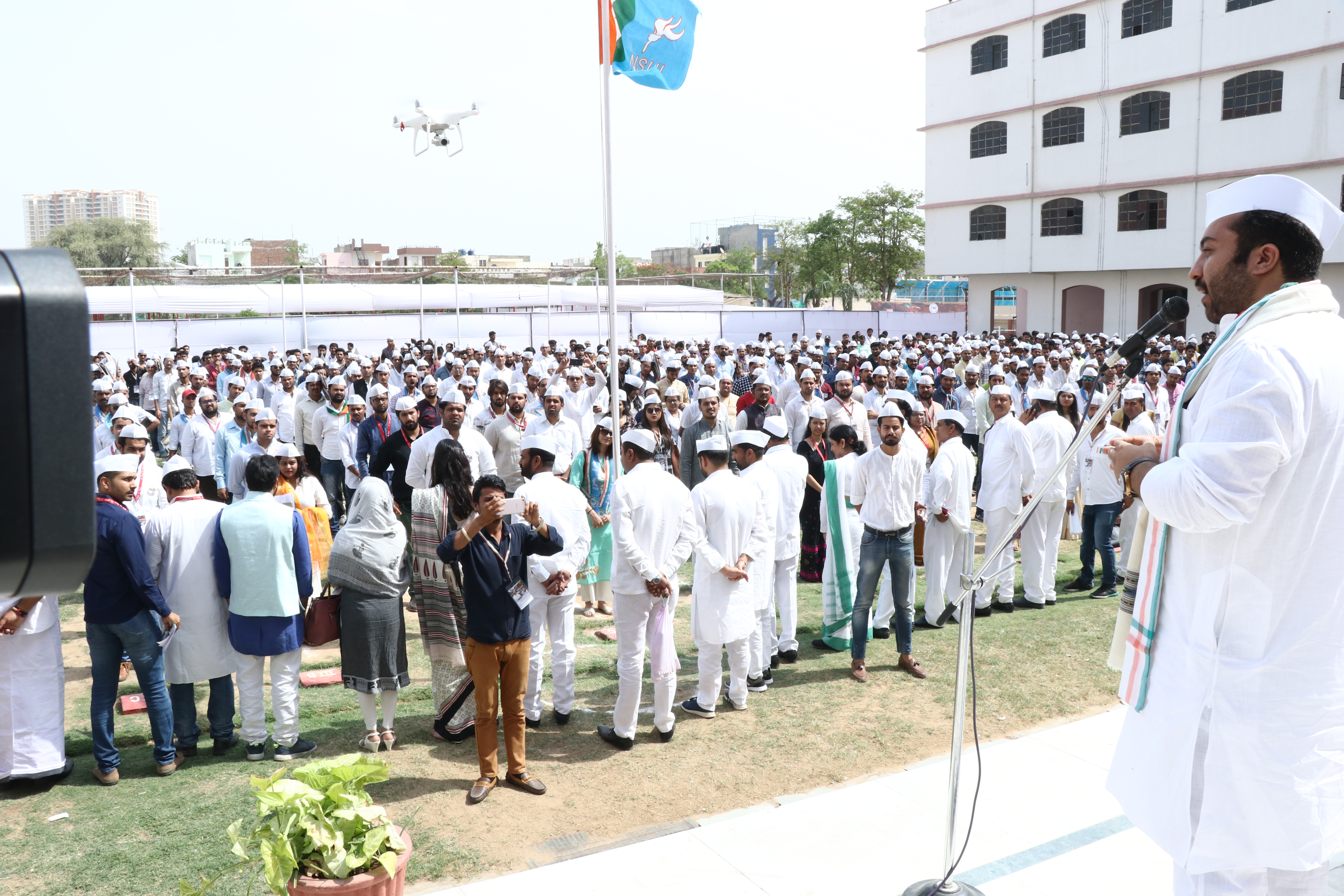 Inquilab is the first-of-its-kind conference, as the NSUI is calling all its elected office bearers starting from college units to the national team. This is Rahul ji’s brain child and the aim of the conference is to bring a revolutionary change in the organisation